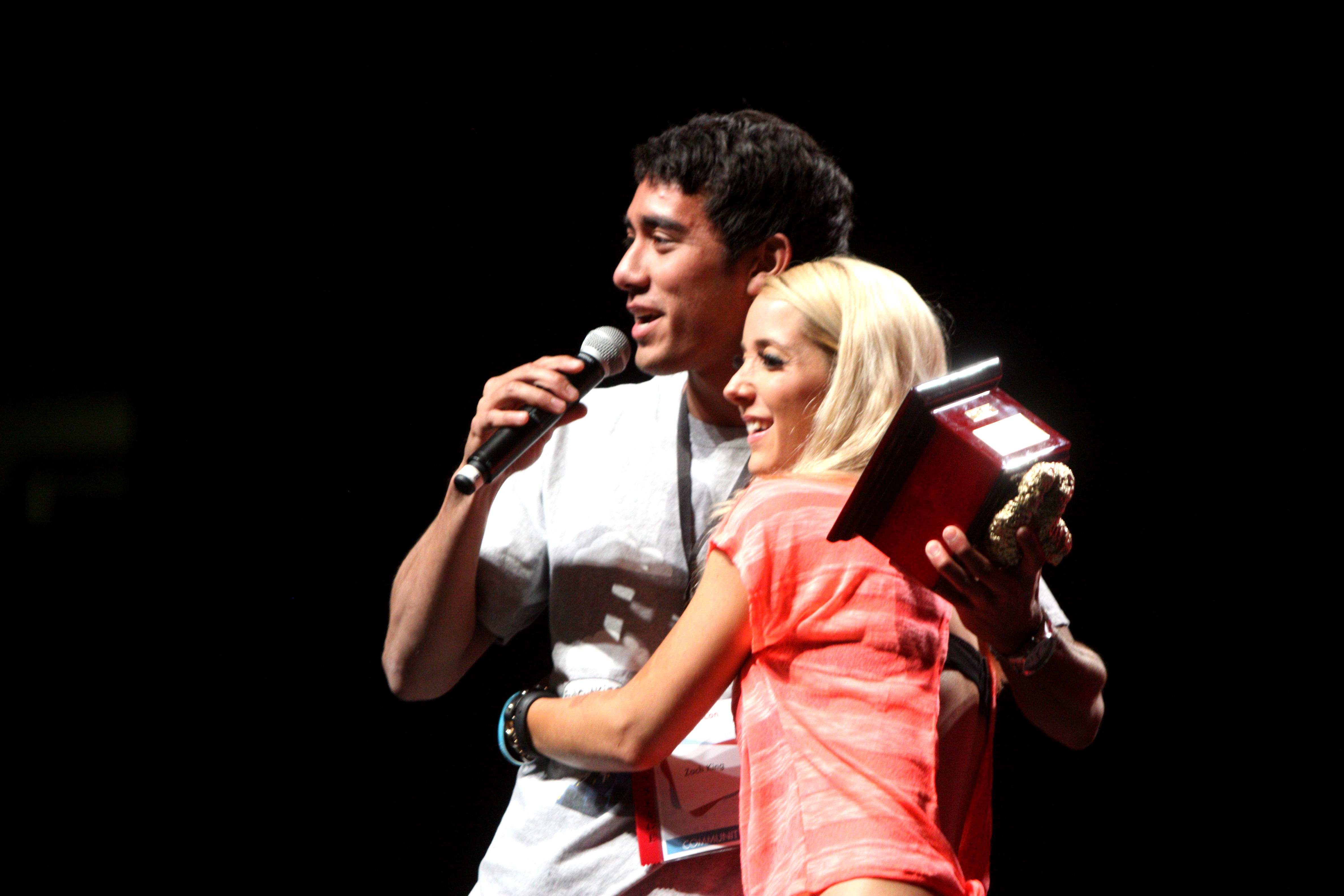 Jenna Marbles & Zach King speaking at VidCon 2012 at the Anaheim Convention Center in Anaheim, California.